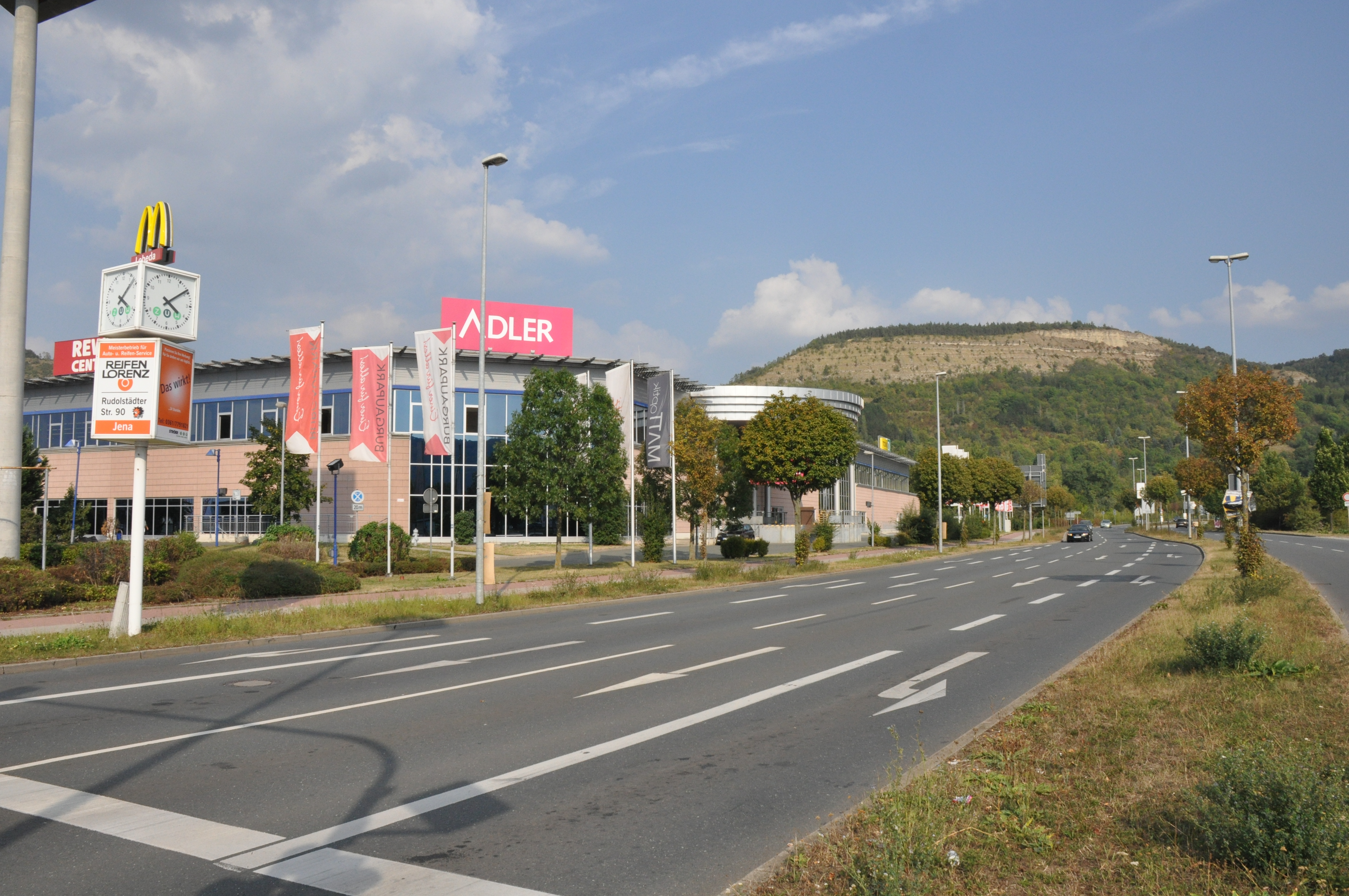 Jena Burgau, Burgaupark south side und landscape